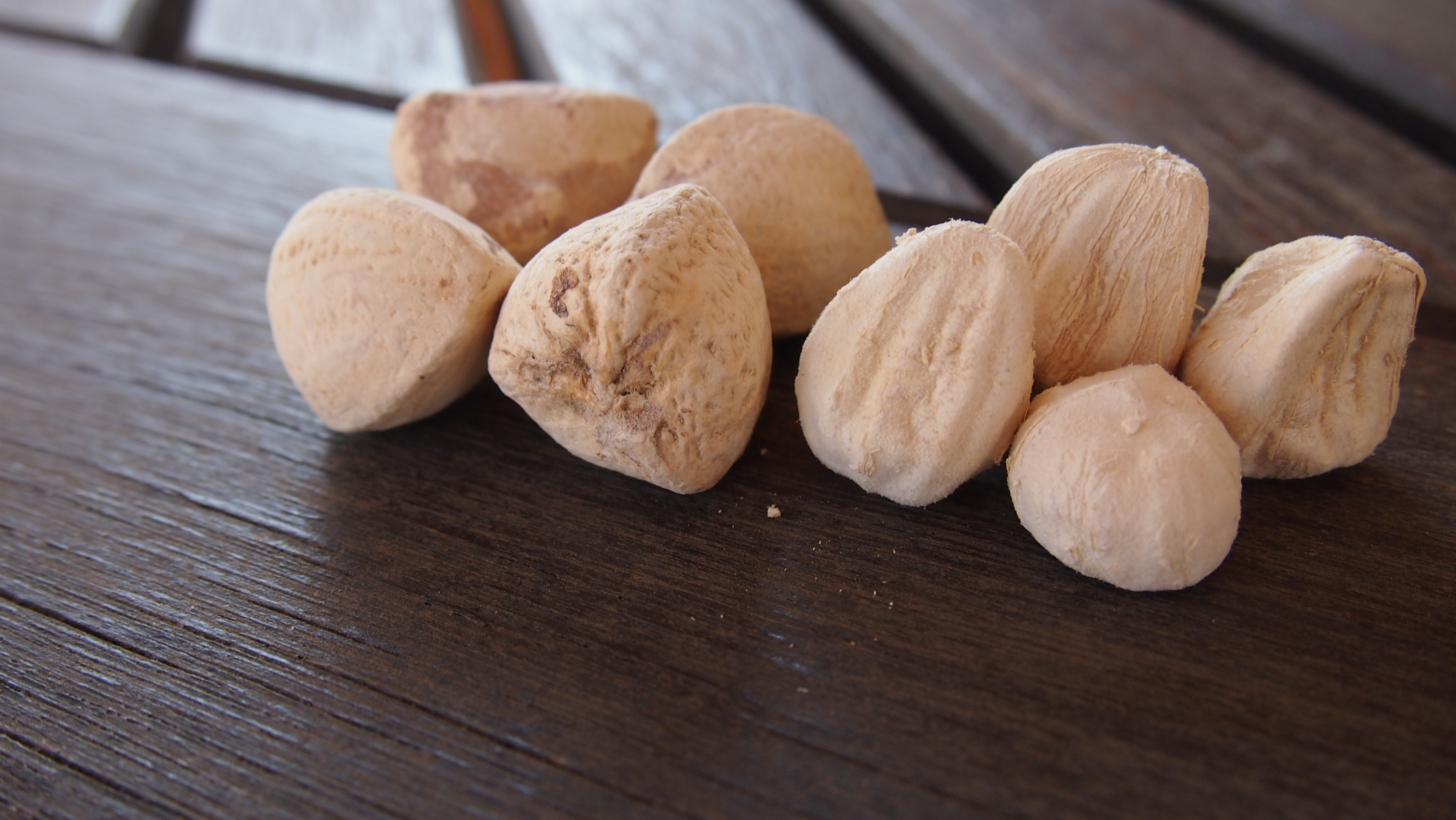 M. drouhardii seeds, in and out of the hard outer shell.